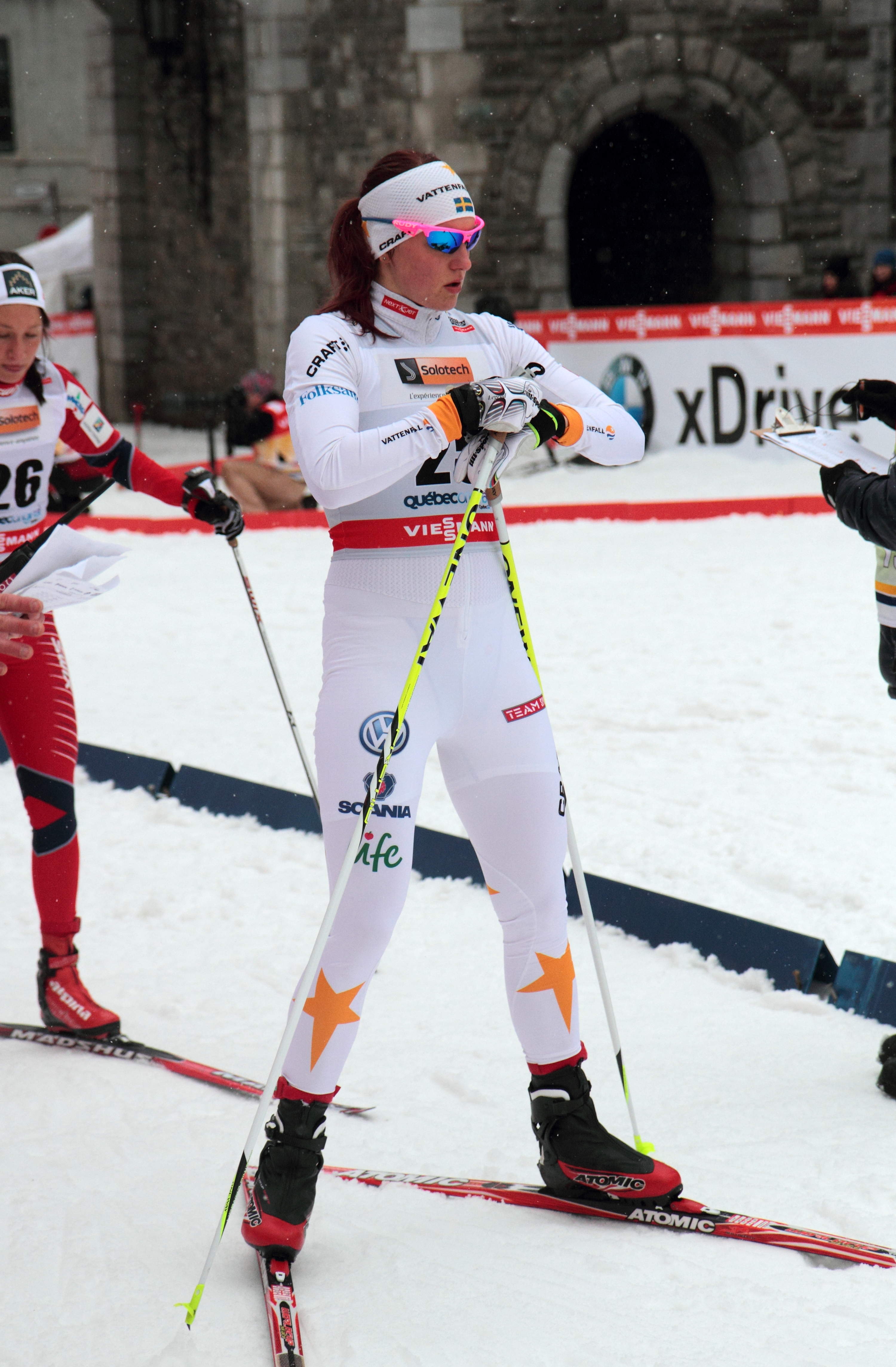 Linn Soemskar, FIS Cross-Country World Cup 2012, Quebec, Canada.